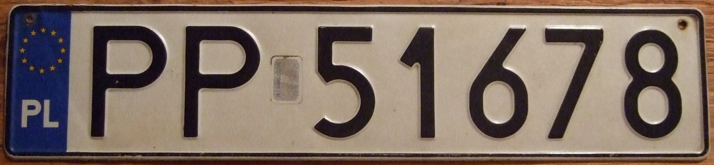 Polish license plate with EEC circle logo and stars.